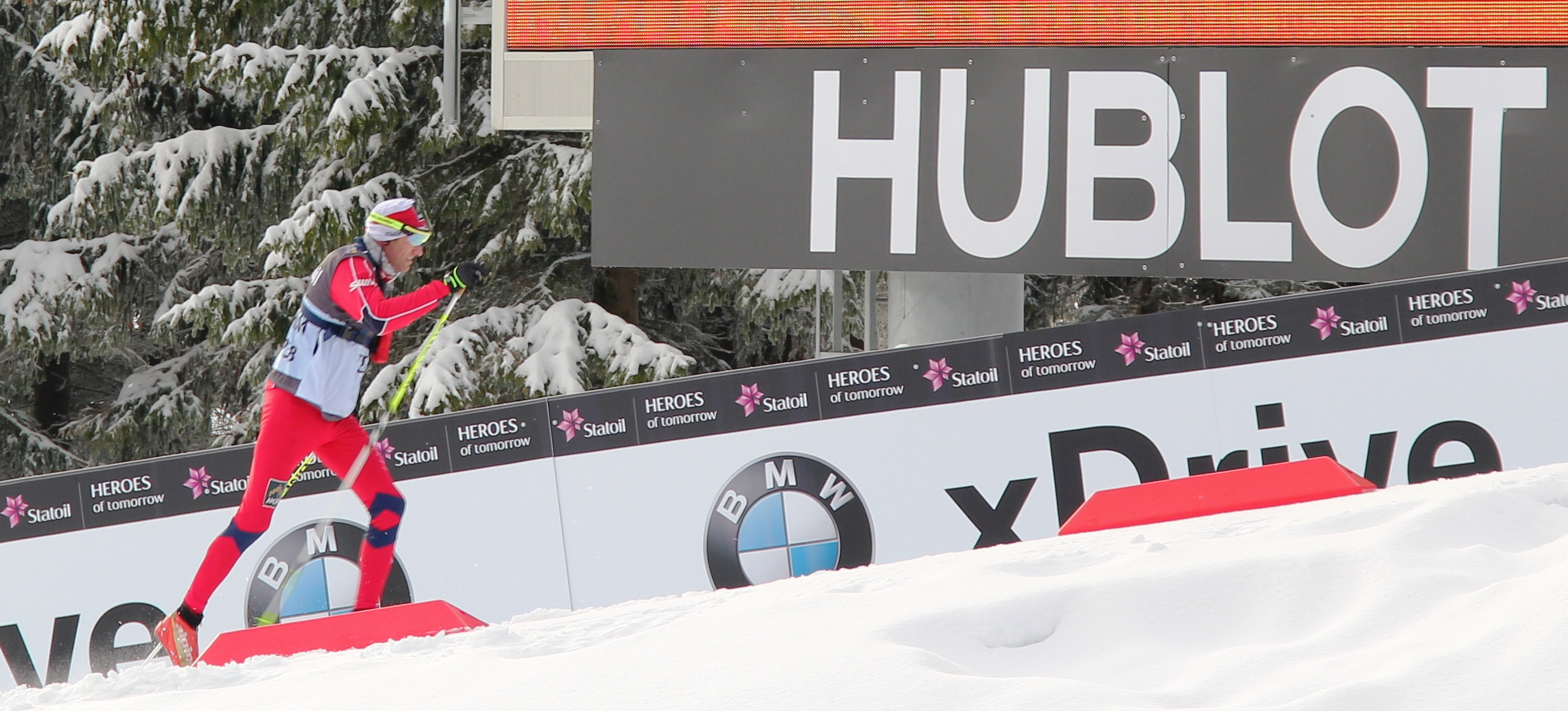 Odd-Bjørn Hjelmeset at the FIS Nordic World Ski Championships in Oslo